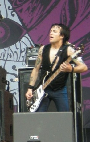 Inge Johansson, The (International) Noise Conspiracy, at Sonisphere Sweden 2009